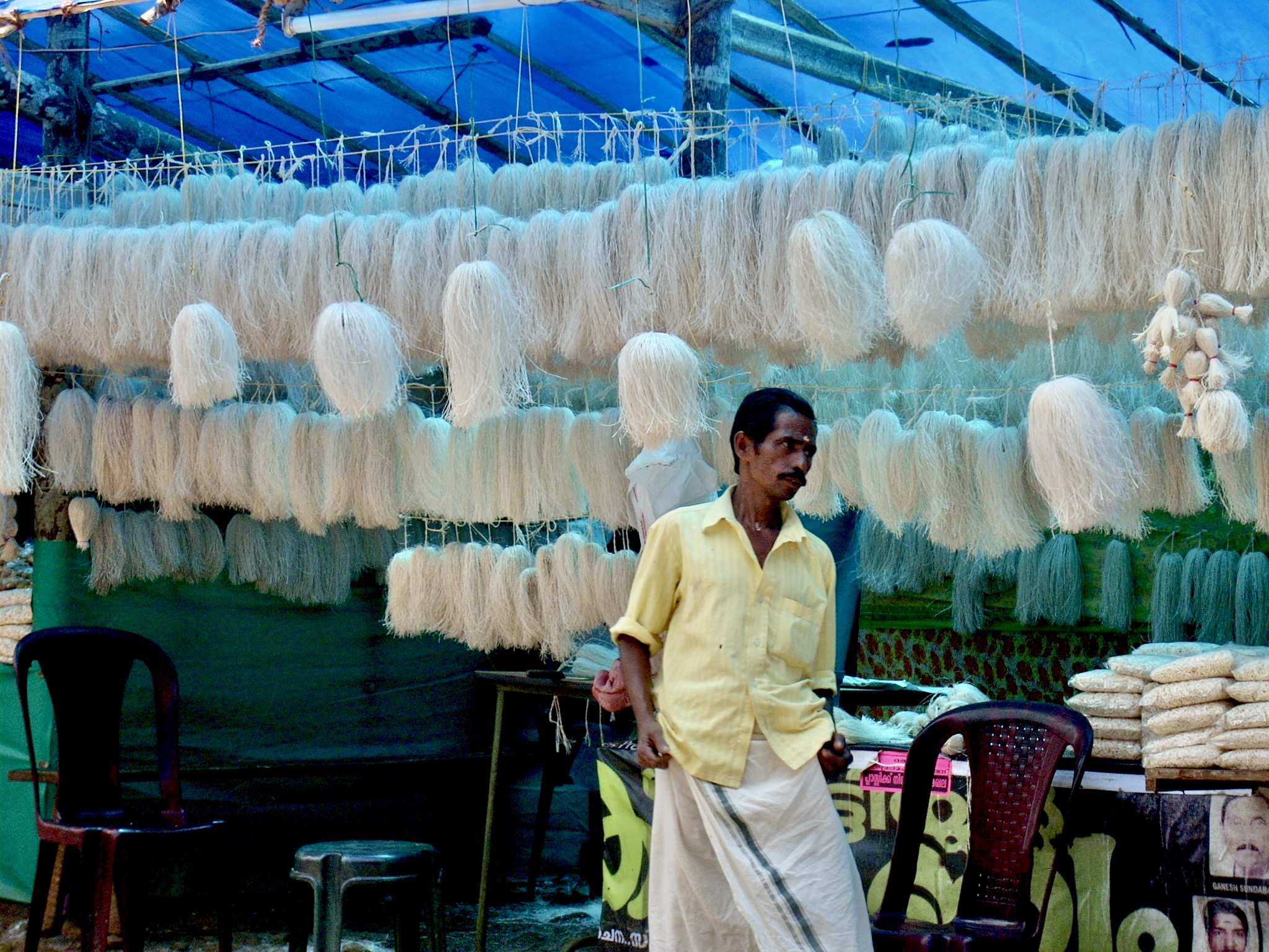 Ota_flower-kottiyur